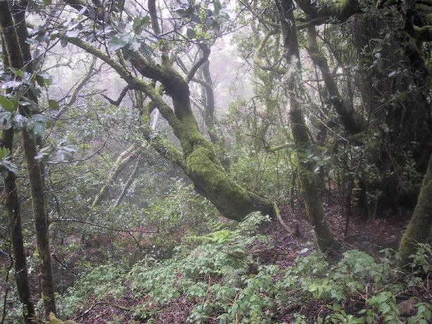 rain forest in La Gomera